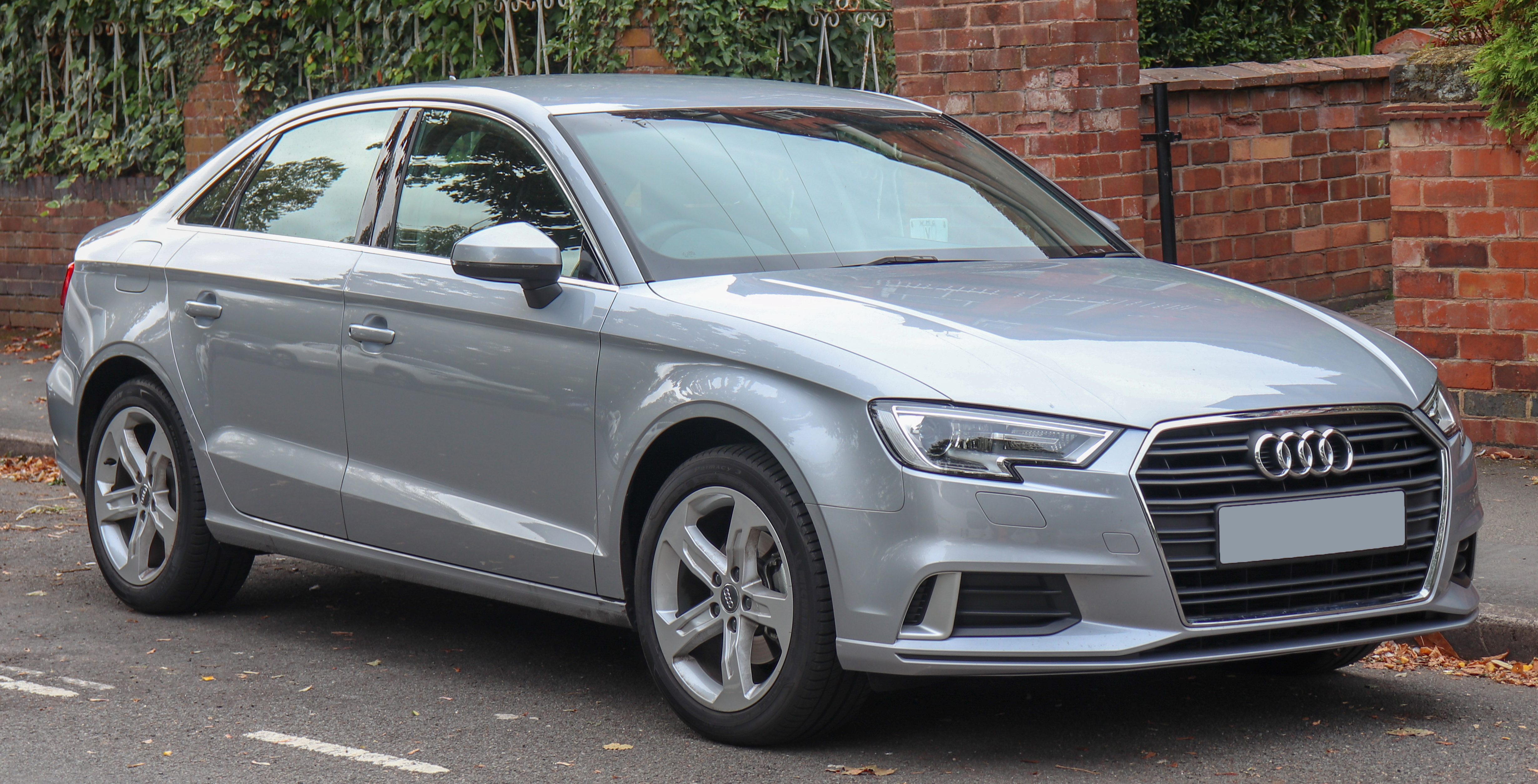 2018 Audi A3 Sport TDi Saloon 1.5 Front Taken in Leamington Spa